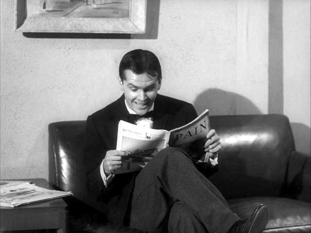 A scene from The Little Shop of Horrors.